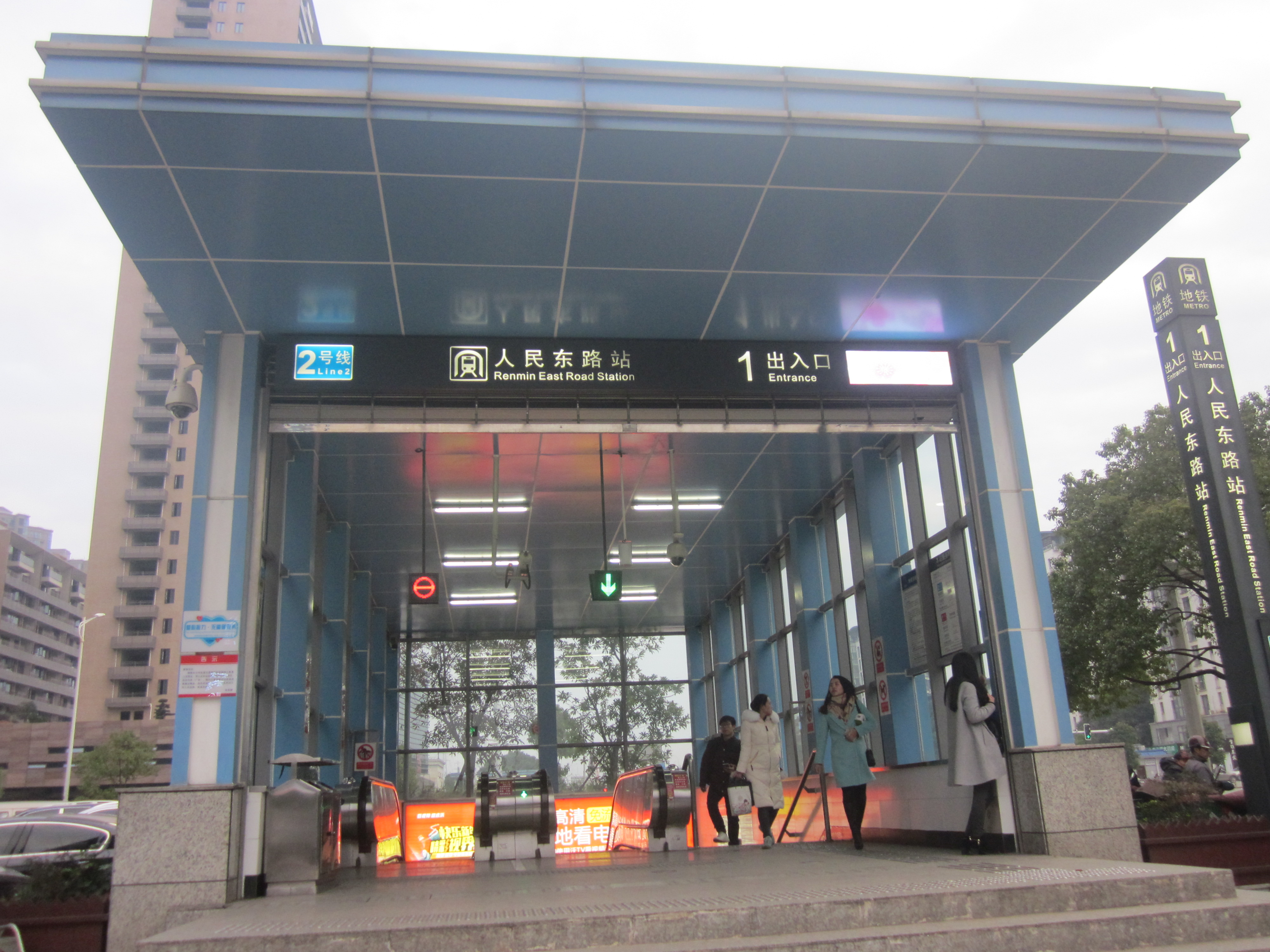 Entrance No. 1 of the Renmin East Road Station. 中文（中国大陆）: 人民东路1号入口。